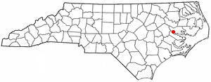 Category:North Carolina Dot Maps